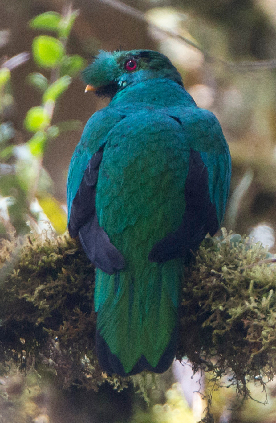 Crested Quetzal, San Isidro Lodge, Ecuador